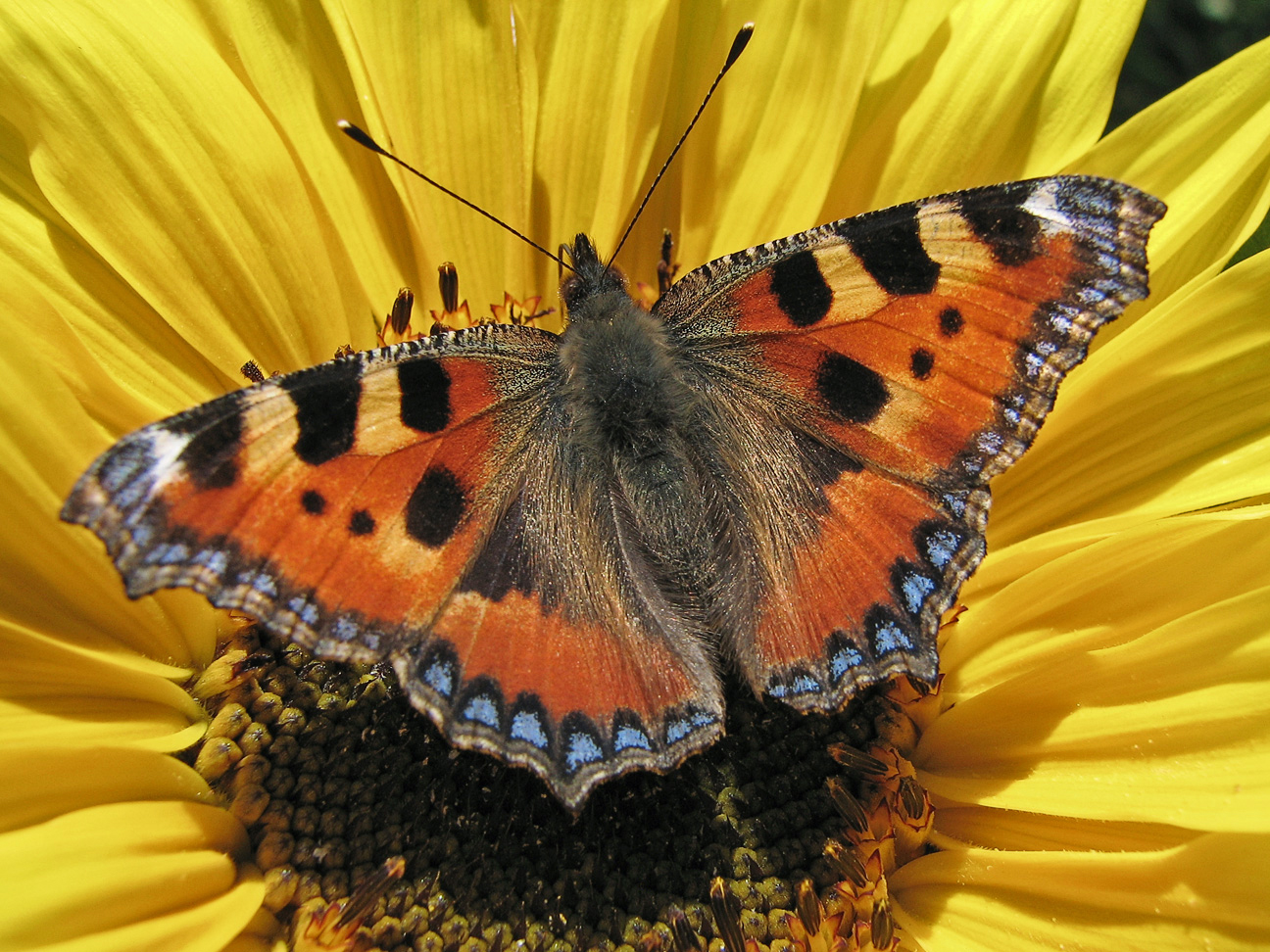 A Small Tortoiseshell (Nymphalis urticae) on a sunflower.